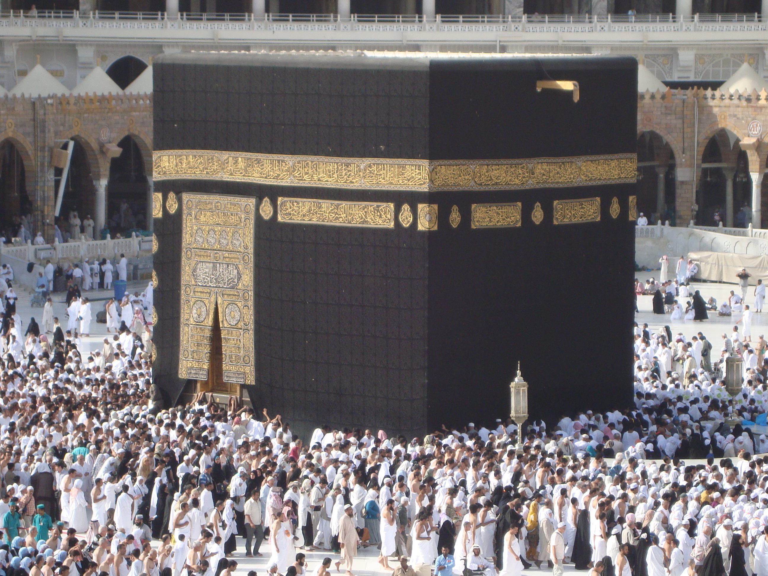 the Ka'aba in Makkah